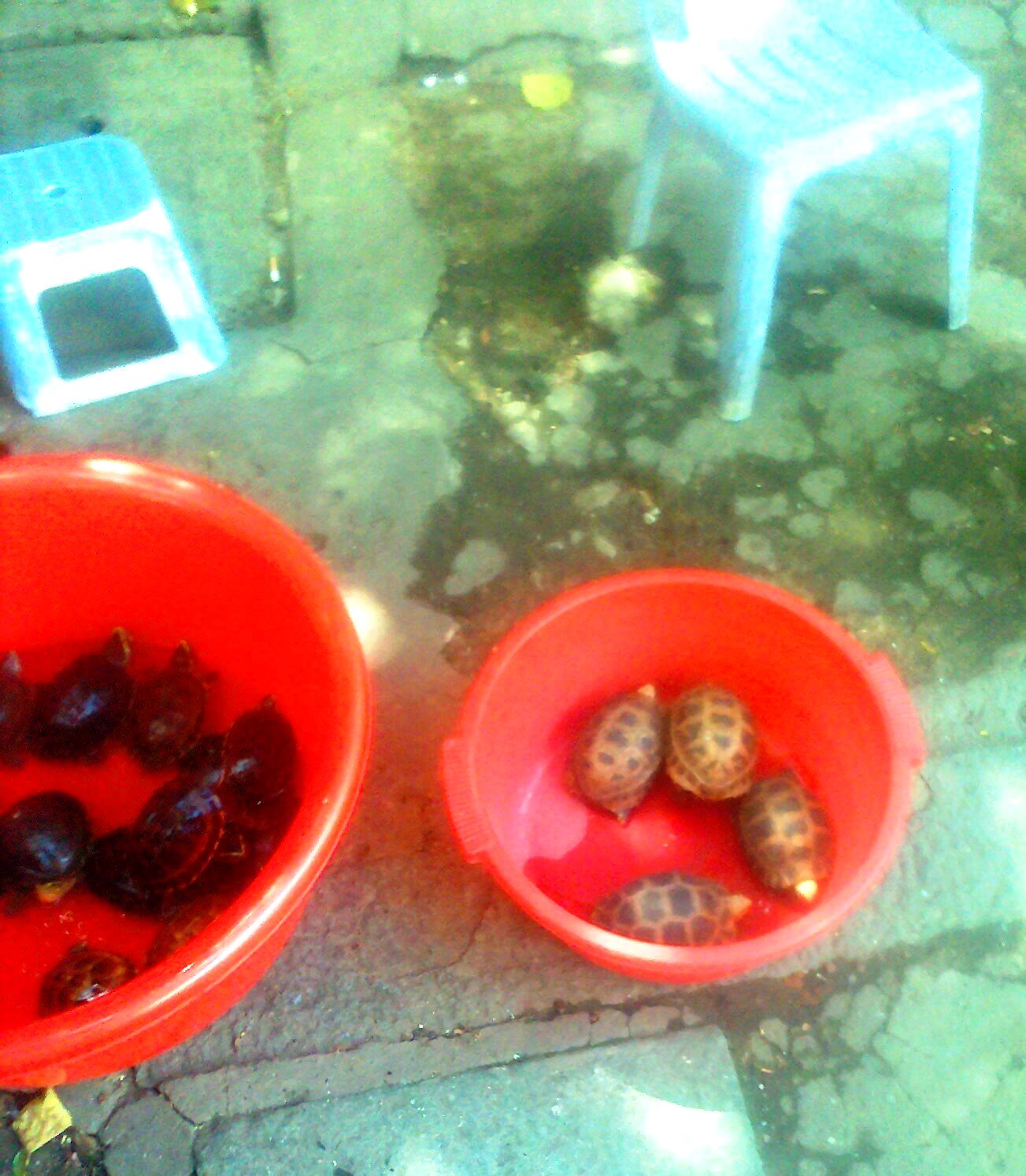 Endangered Indotestudo elongata tortoises and Red Eared Sliders for sale outside the Jade Emperor Temple in Ho Chi Minh City - Vietnam